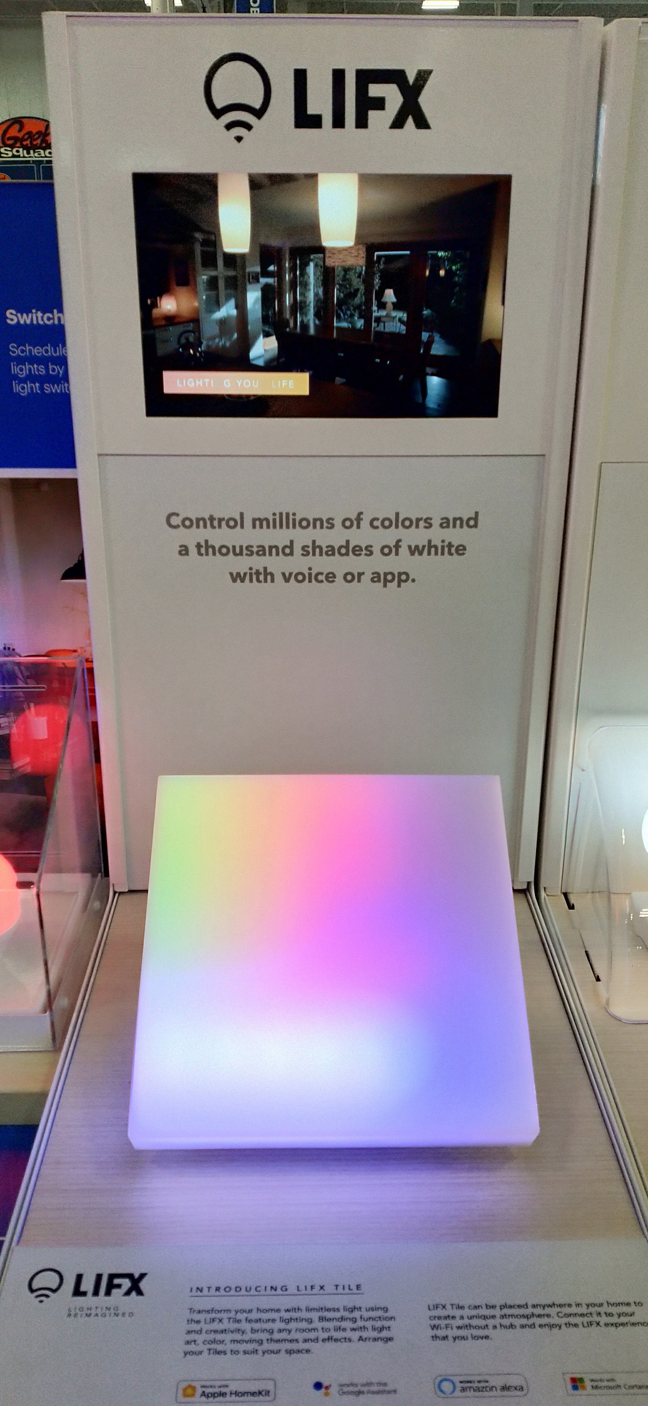 LIFX Tile